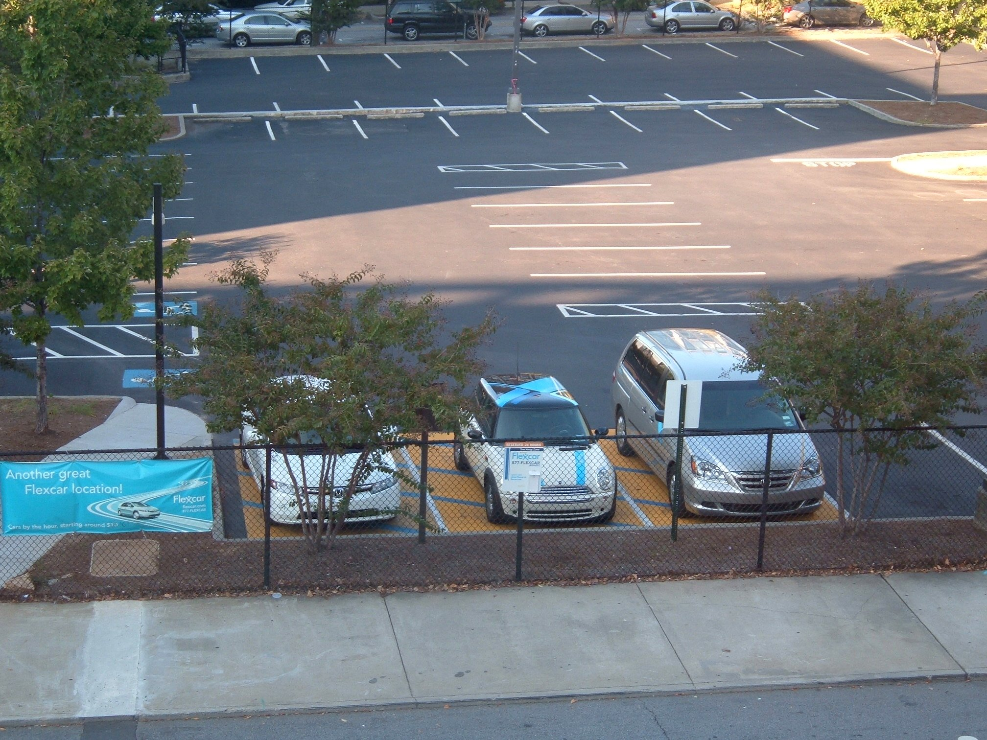 Example Flexcar location in Atlanta, GA, USA (NE corner of 5th St. & Spring St.)